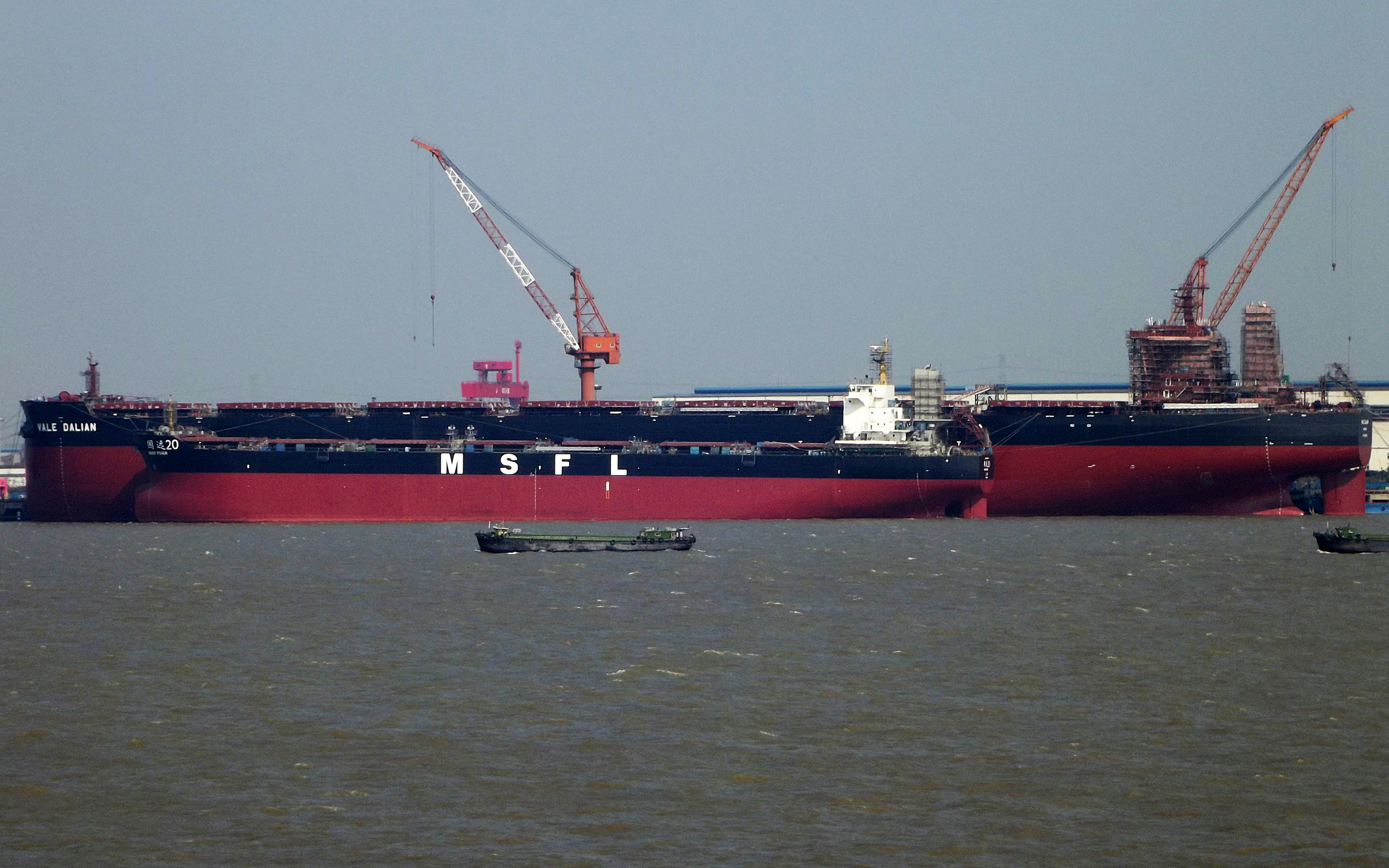 400,000-ton very large ore carrier (VLOC) Vale Dalian under construction at Jinagsu Rongsheng shipyard in China, photographed together with a 75,750 DWT Panamax ship Guo Yuan 20. Slightly retouched from the original.